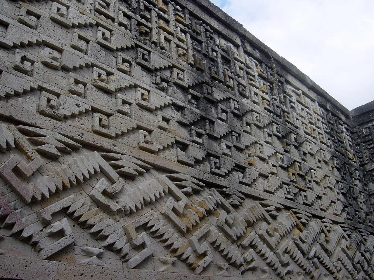 The wall mosaic of the palace in Mitla, Mexico, Oaxaca